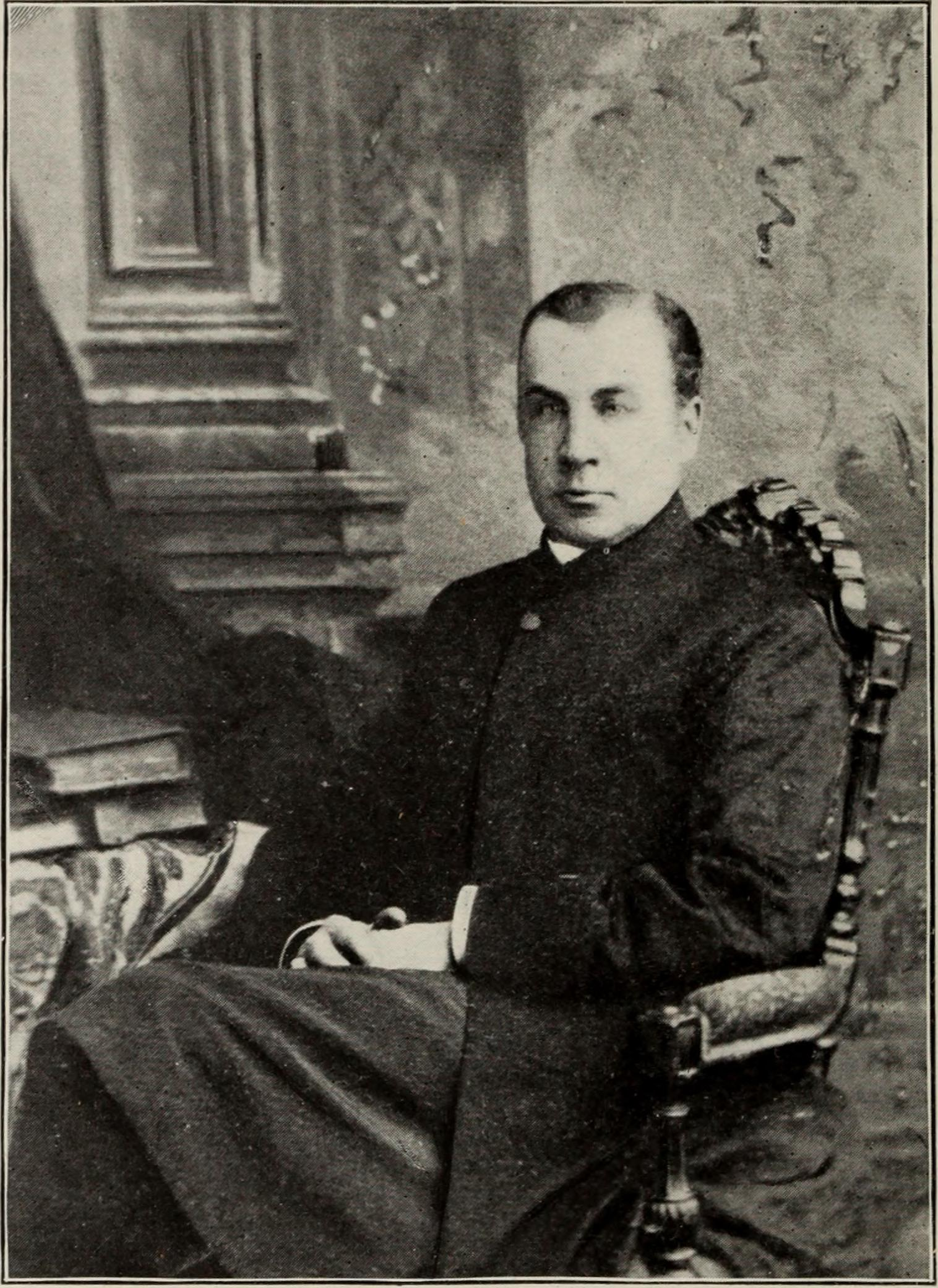 Title: Newfoundland at the beginning of the 20th century : a treatise of history and development Year: 1902 (1900s) Authors: Harvey, M. (Moses), 1820-1901 Subjects: George V, King of Great Britain, 1865-1936 Publisher: New York : The South Publishing Co. Text Appearing Before Image: ely moored at the wharfin the still waters of a perfectly land-locked harbor. Vesselsof the largest tonnage can enter at all periods of the tide, therise of which does not exceed four feet. The entrance of thenarrows, between Signal Hill and Fort Amherst, is about 1,400feet in width, and at the the narrowest point, between Pancakeand Chain Rocks, the channel is not more than 600 feet. Theharbor is over a mile in length and between a quarter and halfa mile in width. It is deep, with a mud bottom, having fromfive to ten fathoms, and in the centre it is ninety feet deep.Of its size it would be difficult to find a finer harbor. The city is built on the northern side of the harbor on asite which could scarcely be surpassed. From the waters edgethe ground rises with a slope till the summit is reached, wherethere is a large level space. Along the face of this slope themain streets run, and the city is rapidly extending itself in alldirections beyond. Three principal streets run parallel with Text Appearing After Image: Right Rev. Llewellyn Jones, Bishop of Newfoundland.